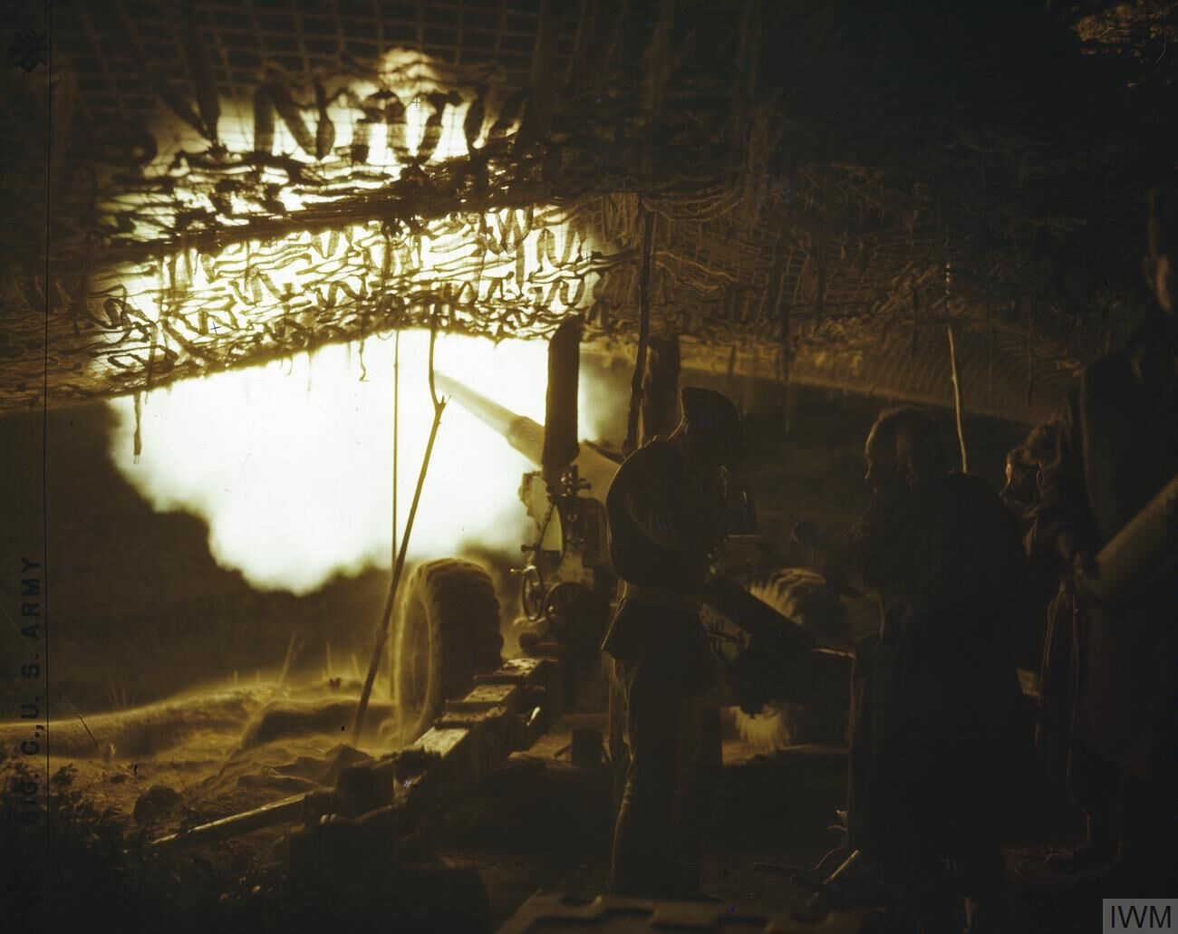 The Crossing of the Garigliano River, Italy by the Fifth Army on the Night of 17 - 18 January 1944 4.5 inch guns of 214 Battery, 69 Medium Regiment, Royal Artillery firing during the six hour barrage laid down by the British section of the 5th Army.